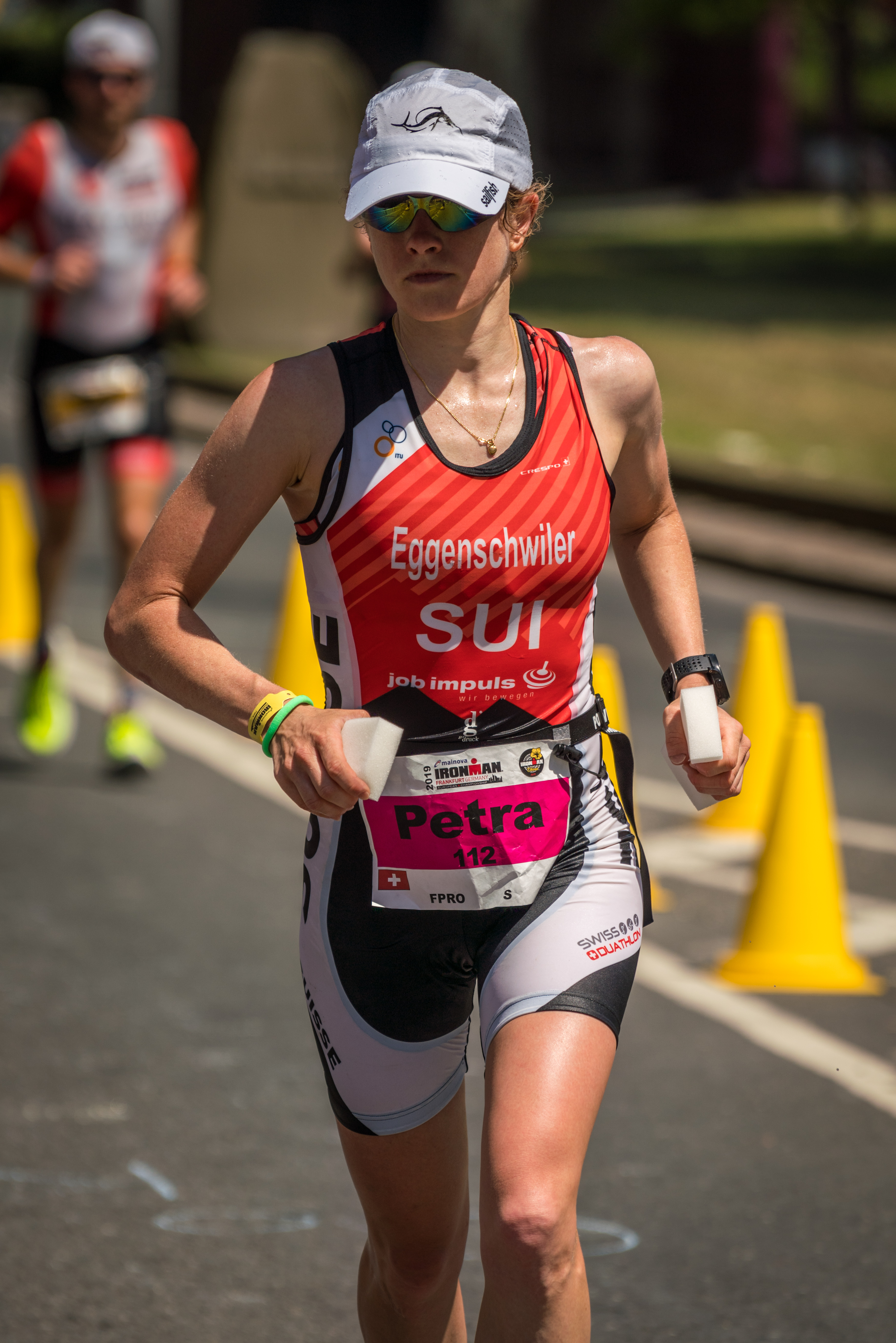 Sixth female Petra Eggenschwiler at the 2019 Ironman European Championship in Frankfurt am Main (Germany).